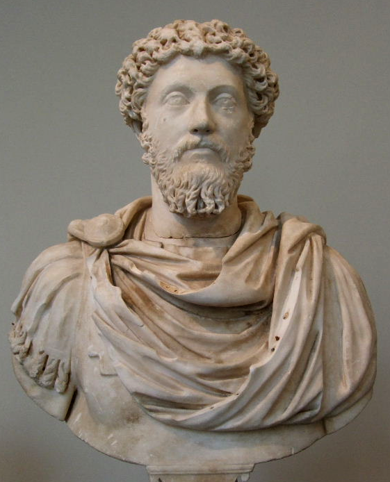 The bust exemplifies Marcus Aurelius' image as the perfect ruler, the "philsopher king." His face projects maturity, serenity, and wisdom underlined by his long beard in the tradition of Greek philosophers. But he also wears a military tunic and cloak, which reflect his active role as commander-in-chief. He spent many years during the latter part of his reign on campaign in central Europe defending the Danube frontier against several different barbarian tribes. It was during these campaigns that he wrote part of the so-called Meditations, a personal diary of his innermost thoughts, influenced by the teachings of the Greek philosopher Epictetus. The bust is said to have been acquired in Rome by the Hon. James Barry Smith and was displayed at Marbury Hall in Chesire, England in 1776.–Metropolitan Museum of Art, New York